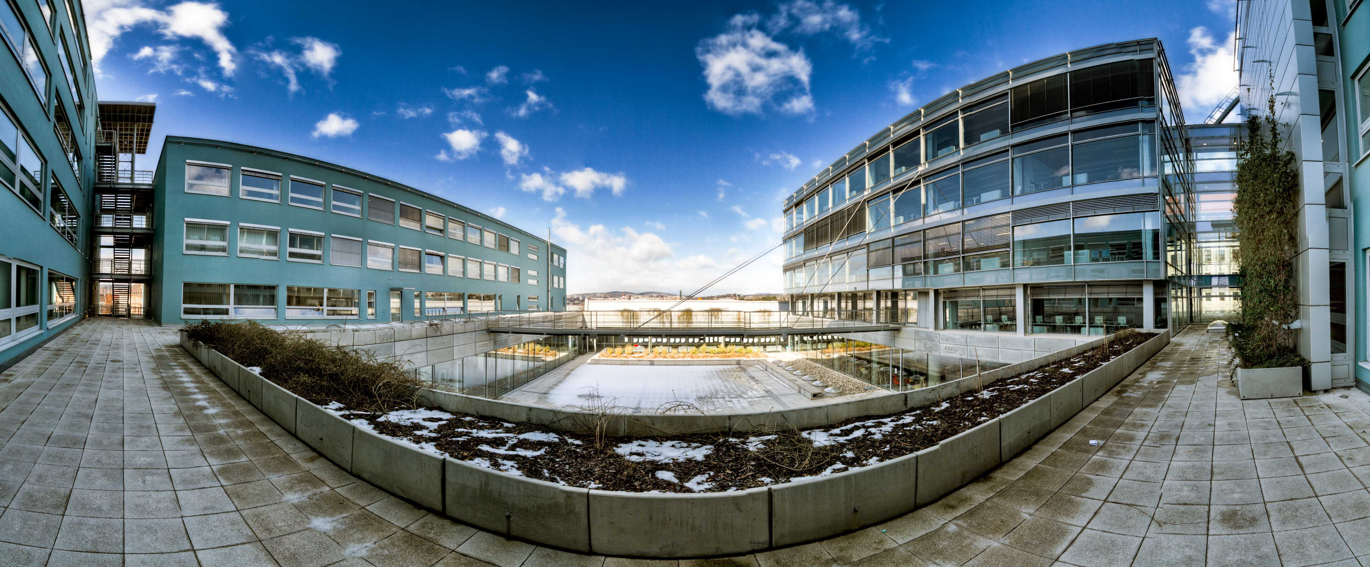 Faculty of Business and Economics at MENDELU